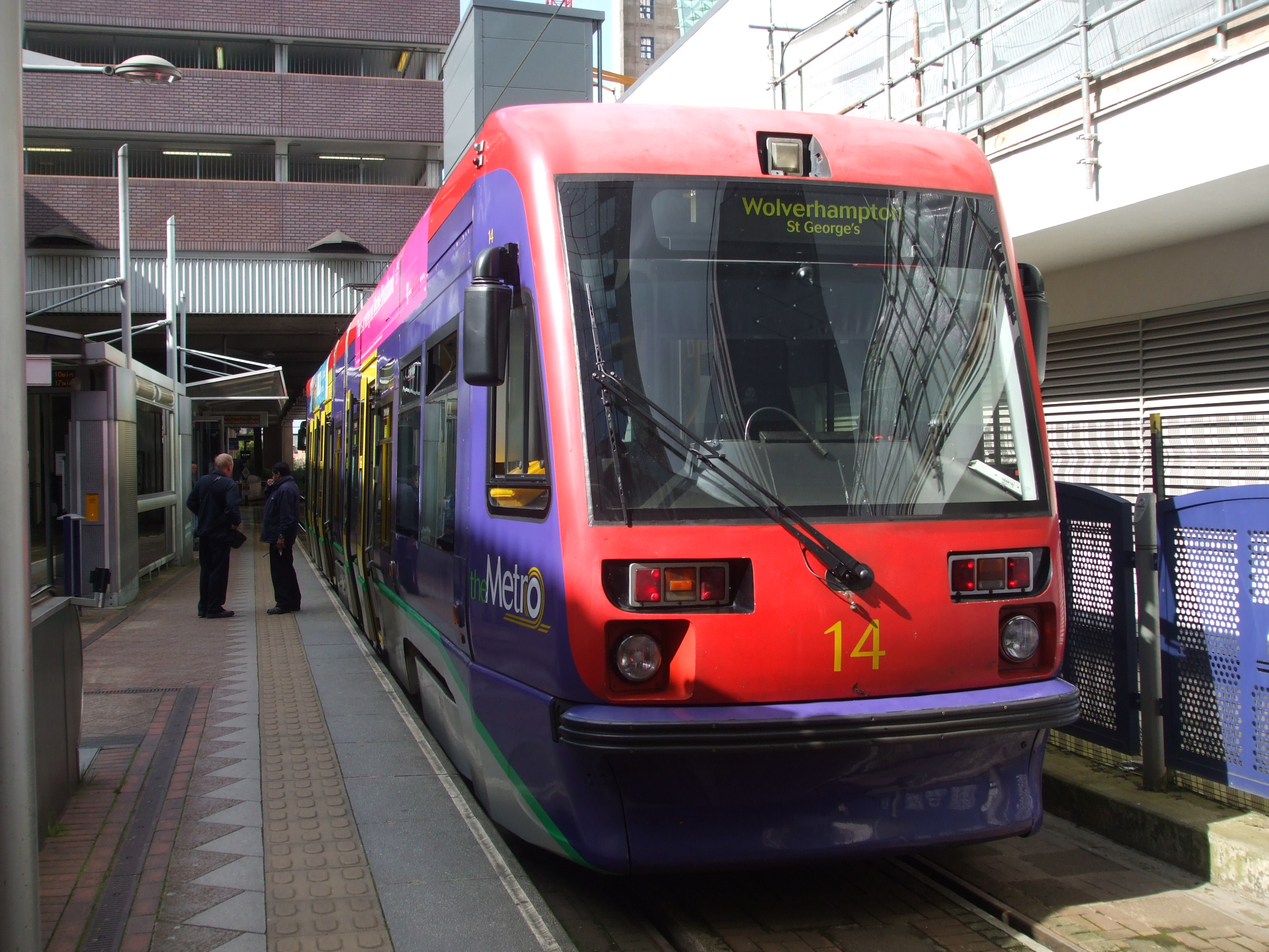 Midland Metro Tram 14 awaits departure from Birmingham Snow Hill with a Wolverhampton St George's service.